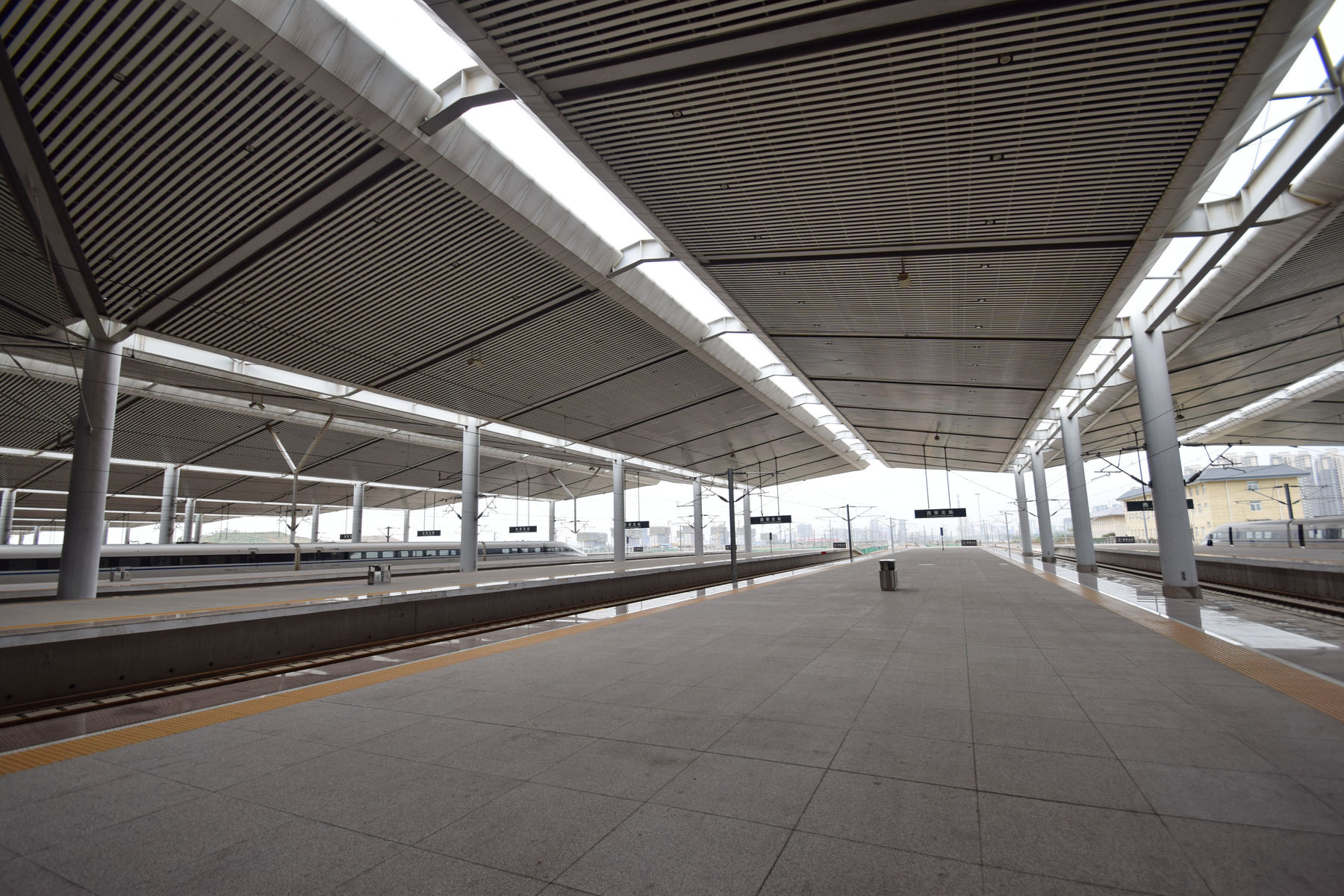 Platforms of Xi'an Bei (North) Railway Station